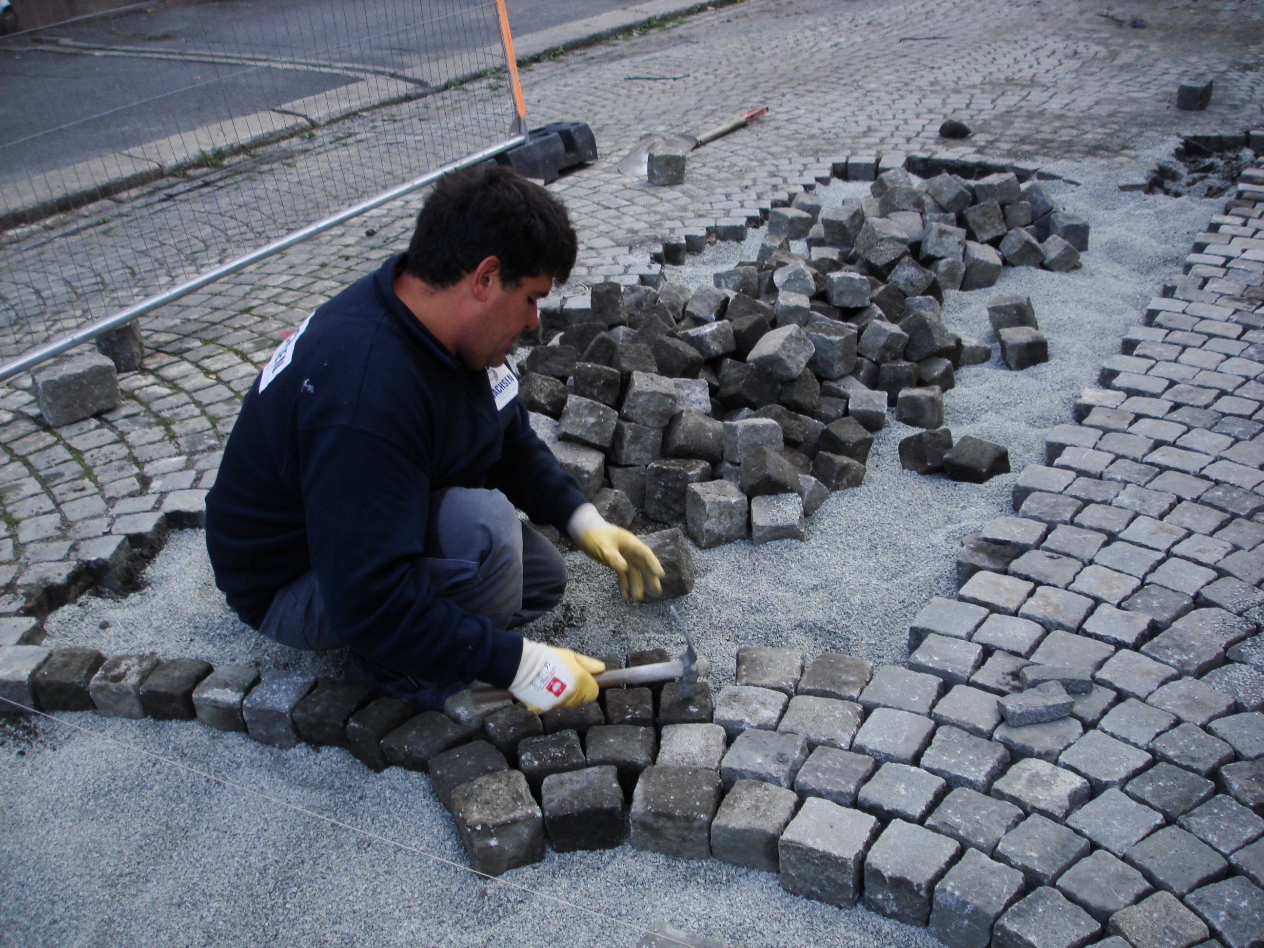 Paving with setts in Solheimsgata, Oslo